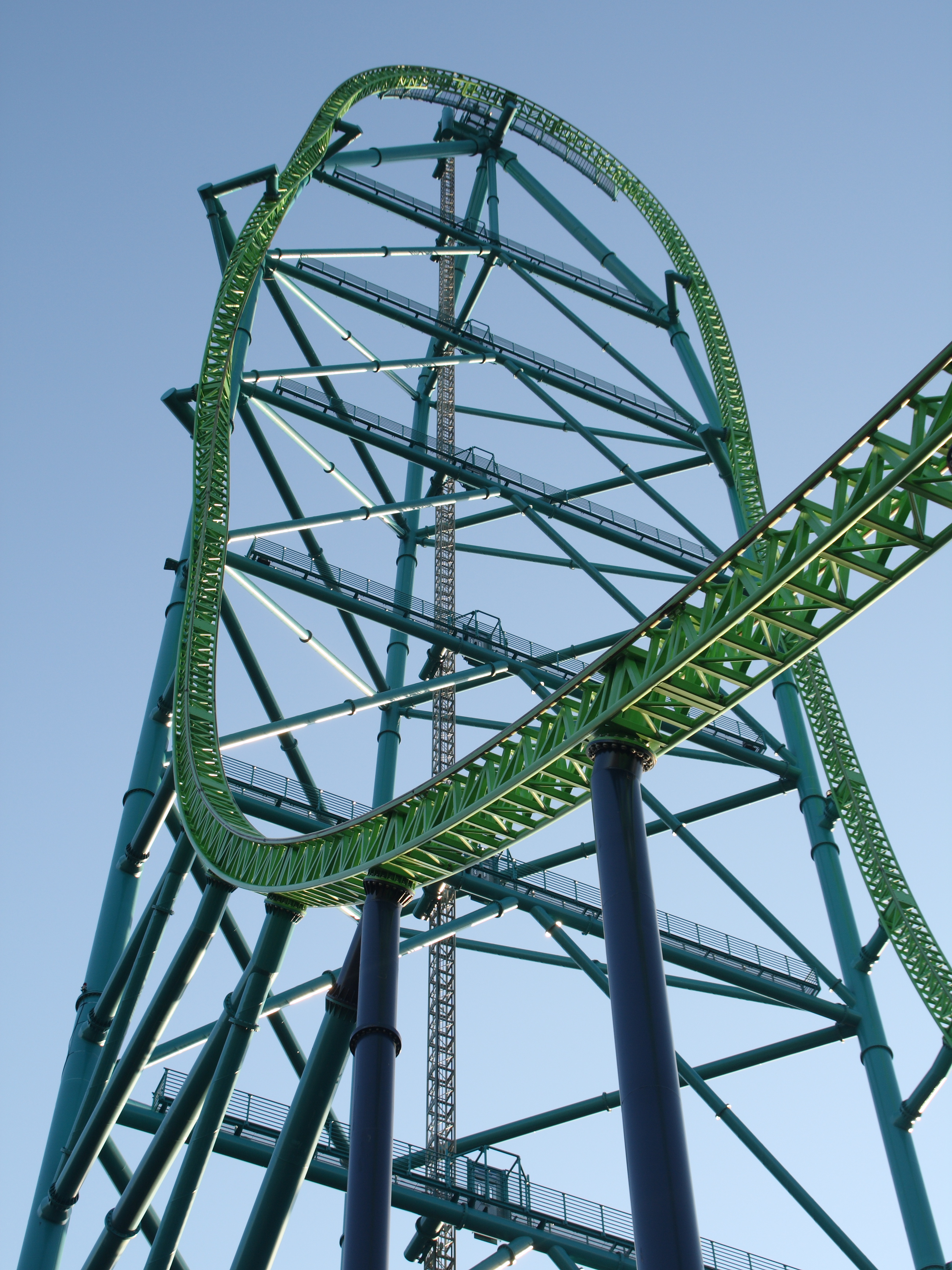 Closeup of Kingda Ka's tower